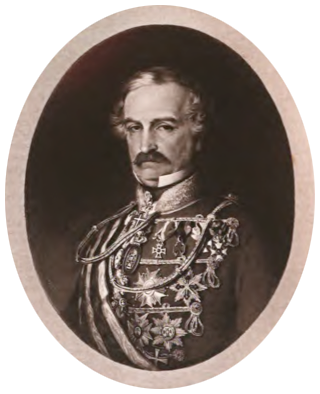 Portrait derived from Charles Von Hügel, April 25, 1795 - June 2, 1870 (1903), a biography of the melancholic adventurer and naturalist by his son Anatole von Hügel. The caption is "CHARLES VON HÜGEL. FROM A PAINTING BY JOSEPH NEUGEBAUER. Florence, 1851.".